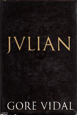 Cover to first edition of Julien by Gore Vidal